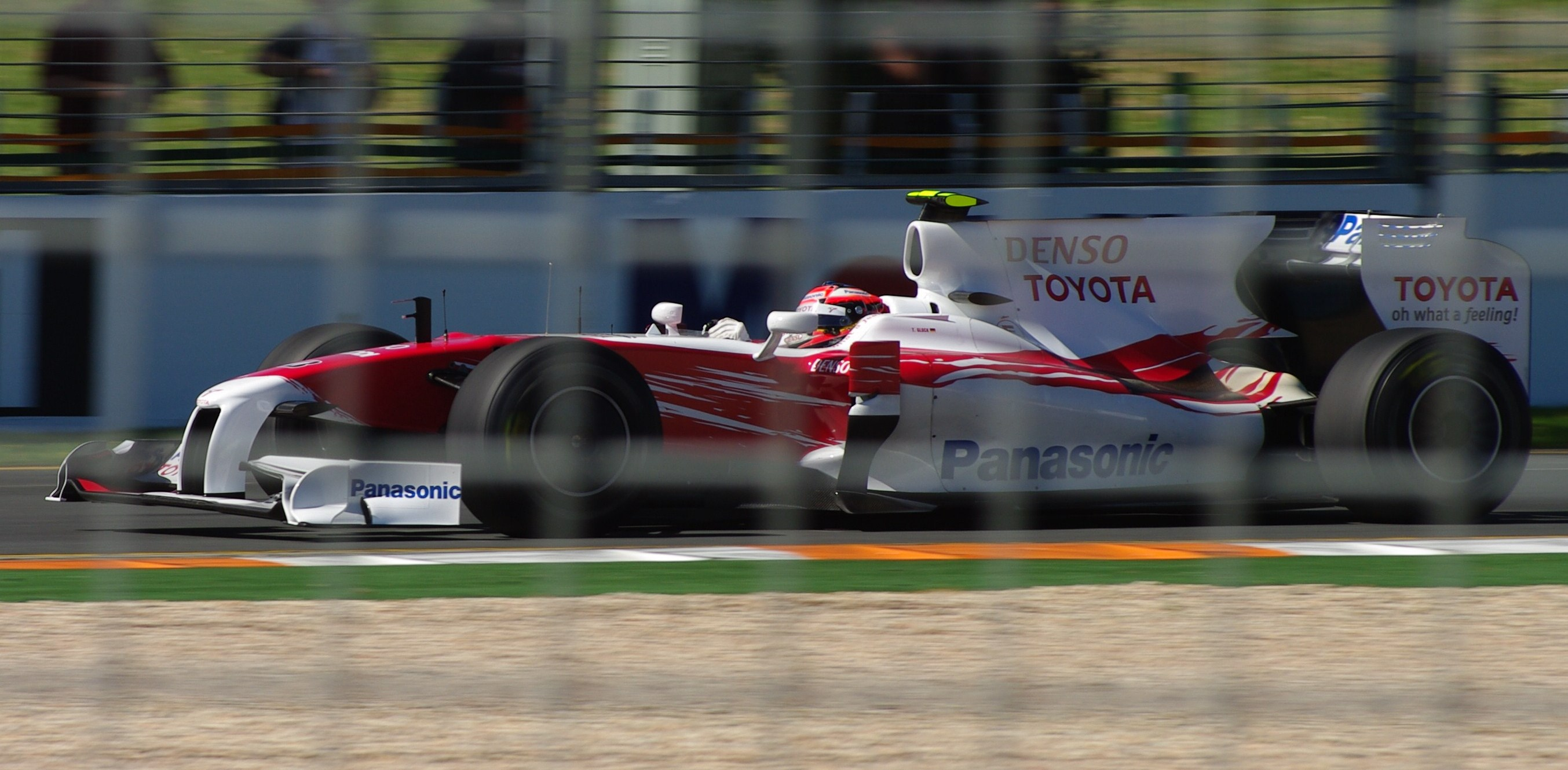 Timo Glock at 2009 Australian Grand Prix, Melbourne, Australia